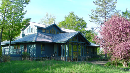 Main operations centre at the Queen's University Biological Station